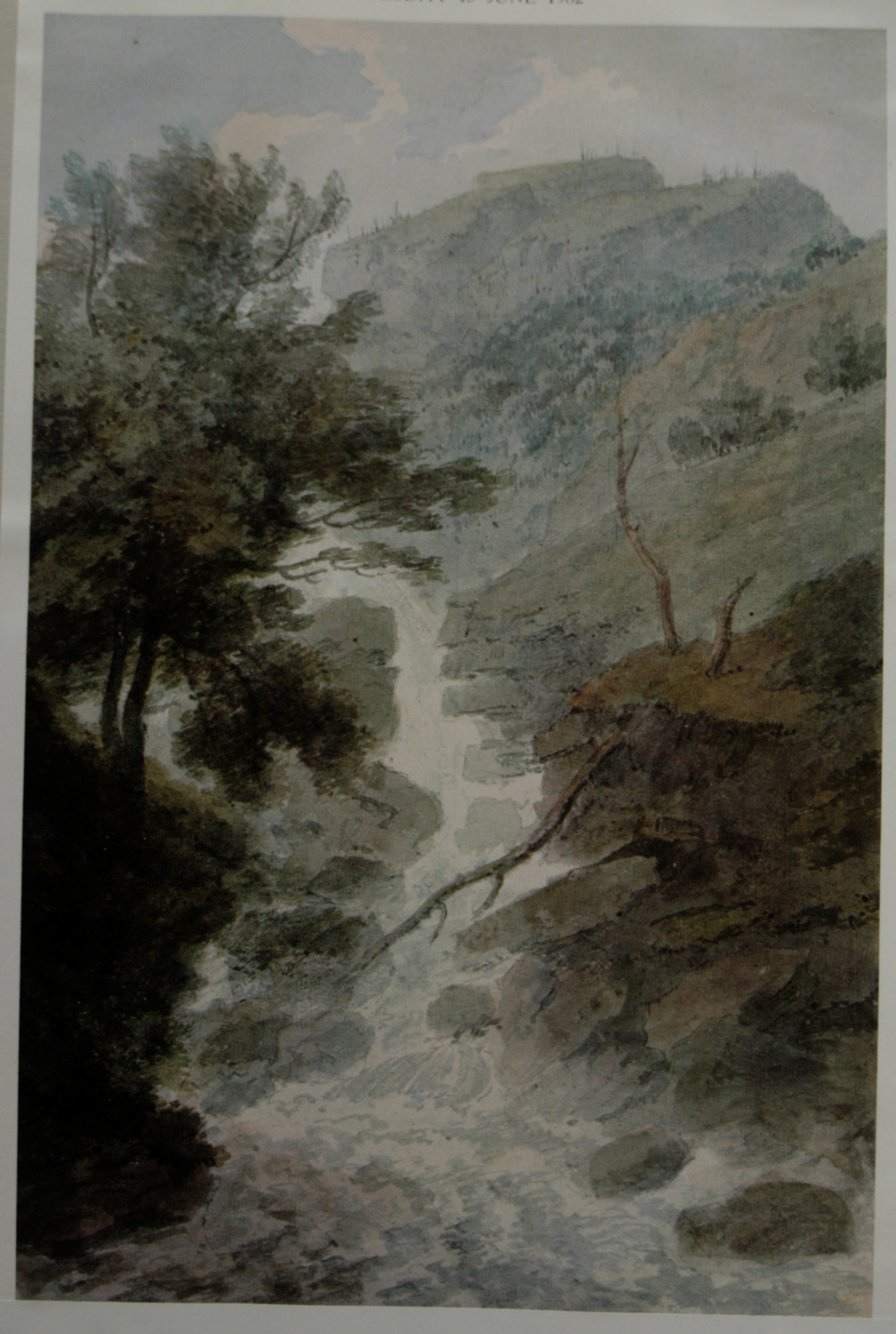 See earlier upload for info. My photo (Rodolph (talk) 00:51, 25 May 2014 (UTC)) of a photo of The Falls of Reichenbach, pencil and watercolour, by John Robert Cozens (1752-97), ex-Aynscombe of Mortlake collection. Other information see earlier upload thumb|Black and white repro. Provenance: 2nd day lot 20, anon sale; Miss Aynscombe; Colonel Thomas-Chaloner Bisse-Challoner; Rev. Henry Jerome de Salis; Sir Cecil Fane de Sais, DL, JP; Lt. Col. Edmund Fane De Salis; Major J. O. De Salis, Christie's, King Street, 15 June 1982, lot 5. Rodolph (talk) 00:55, 25 May 2014 (UTC)